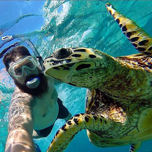 turtle #selfie #Indonesia #Wildlife #travel #ocean #underwater #GoPro